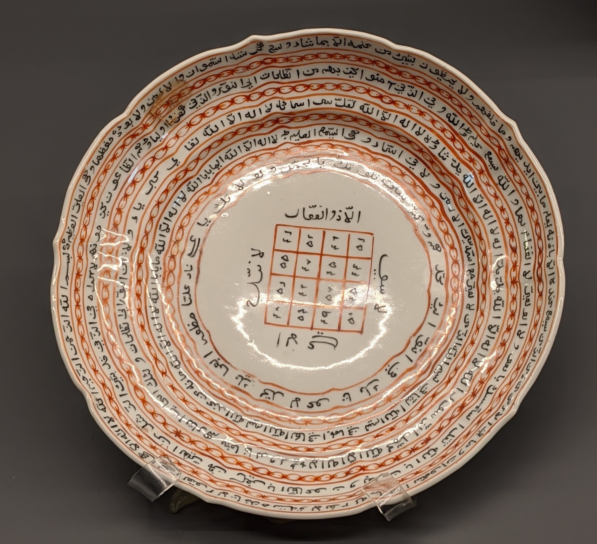 Chinese bowl dated between 1770 and 1800. Contains an inscription of the Quranic verse Ayat al-Kursi in Arabic. Topkapı Palace Native nameTopkapıParent institutionHistoric Areas of IstanbulLocationEminönü, TurkeyCoordinates41° 00′ 46.8″ N, 28° 59′ 02.4″ E Established1475Web pagemuze.gen.trAuthority control : Q170495 VIAF: 149600133 ISNI: 0000 0001 2182 4883 ULAN: 500300600 LCCN: n50075577 GND: 4263672-3 WorldCat institution QS:P195,Q170495